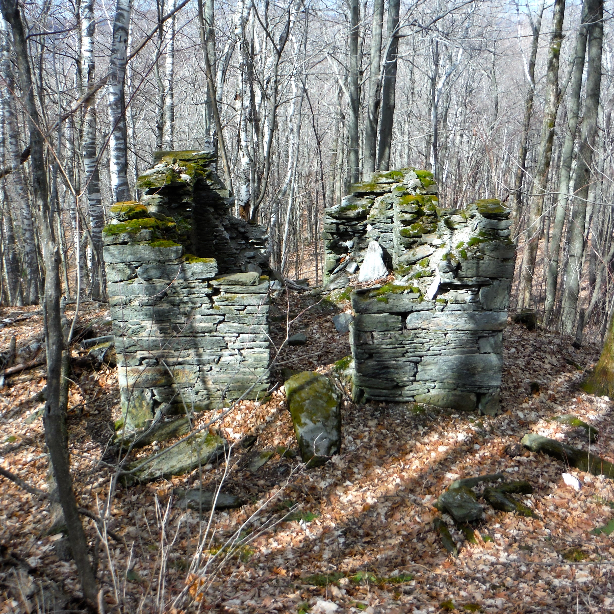 Ruins of the western most alignment tower located on Ragged Mountain in North Adams, Massachusetts. Located just off of abandoned West Mountain Road at the high of land as the road traverses the northern end of Ragged Mountain.